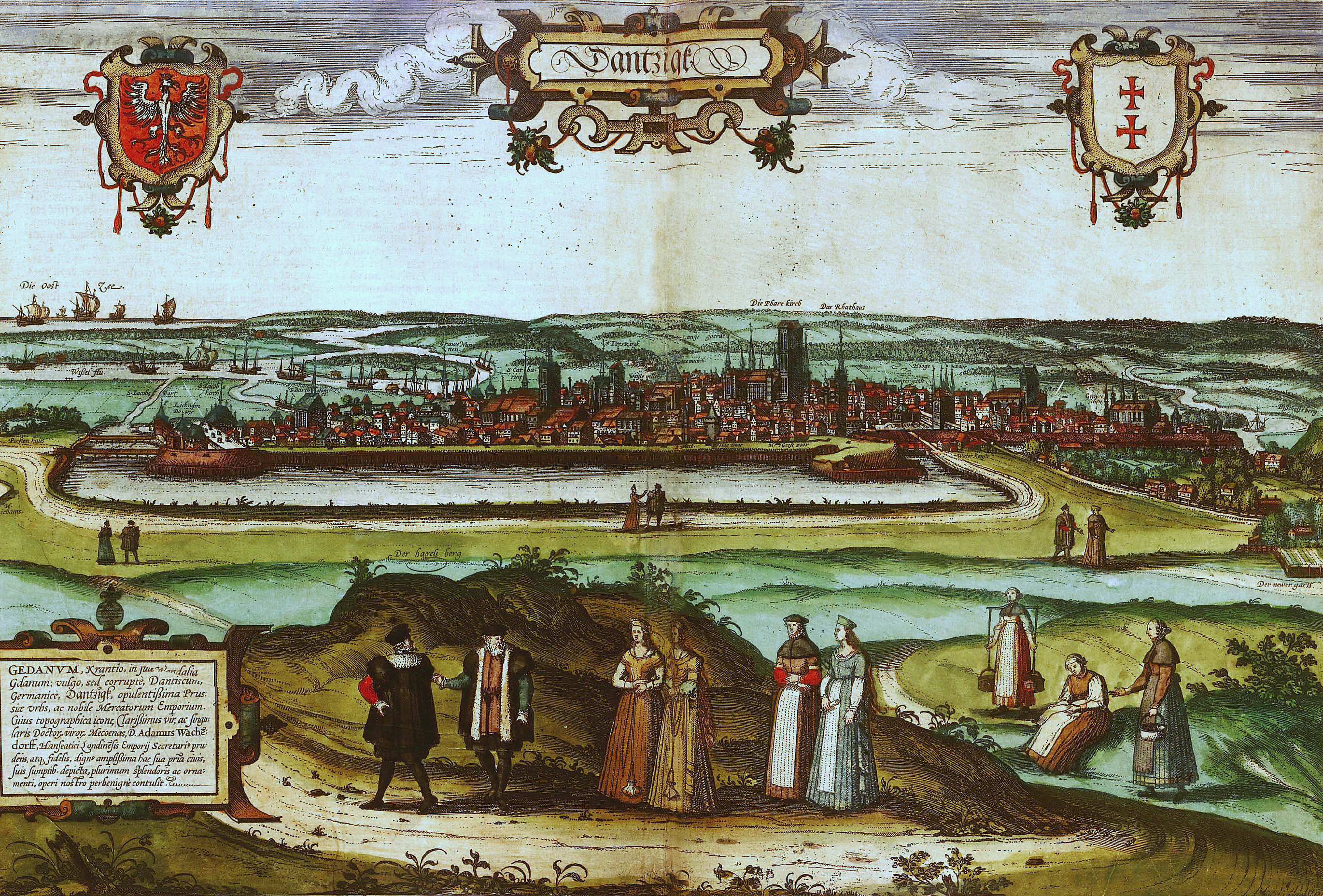 View of Gdansk in 16th century